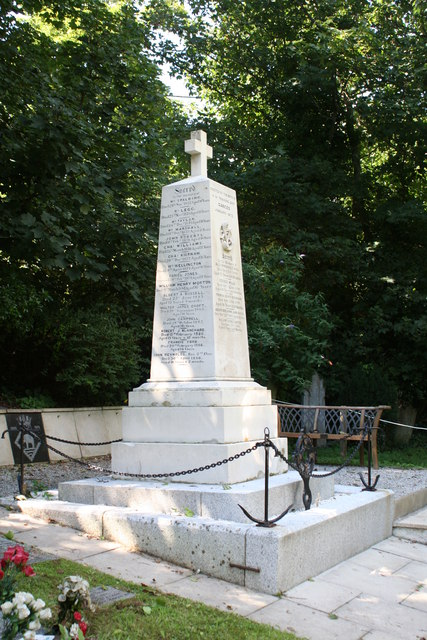 HMS 'Ganges' memorial in Mylor churchyard This memorial commemorates the 53 boys who died whilst training on the HMS 'Ganges' between 1866 and 1899. The ship was a three masted naval training ship moored nearby for a period of 33 years, training young boys for a service career. The majority of the boys died of illness but the deaths of eight of them were the results of accidents. Much more information here